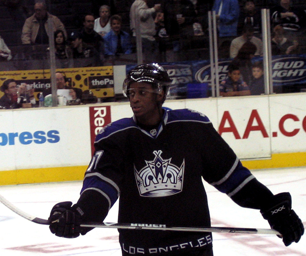 Photo by Matthew McPherson, Staples Center, Los Angeles, CA, December 5, 2008.